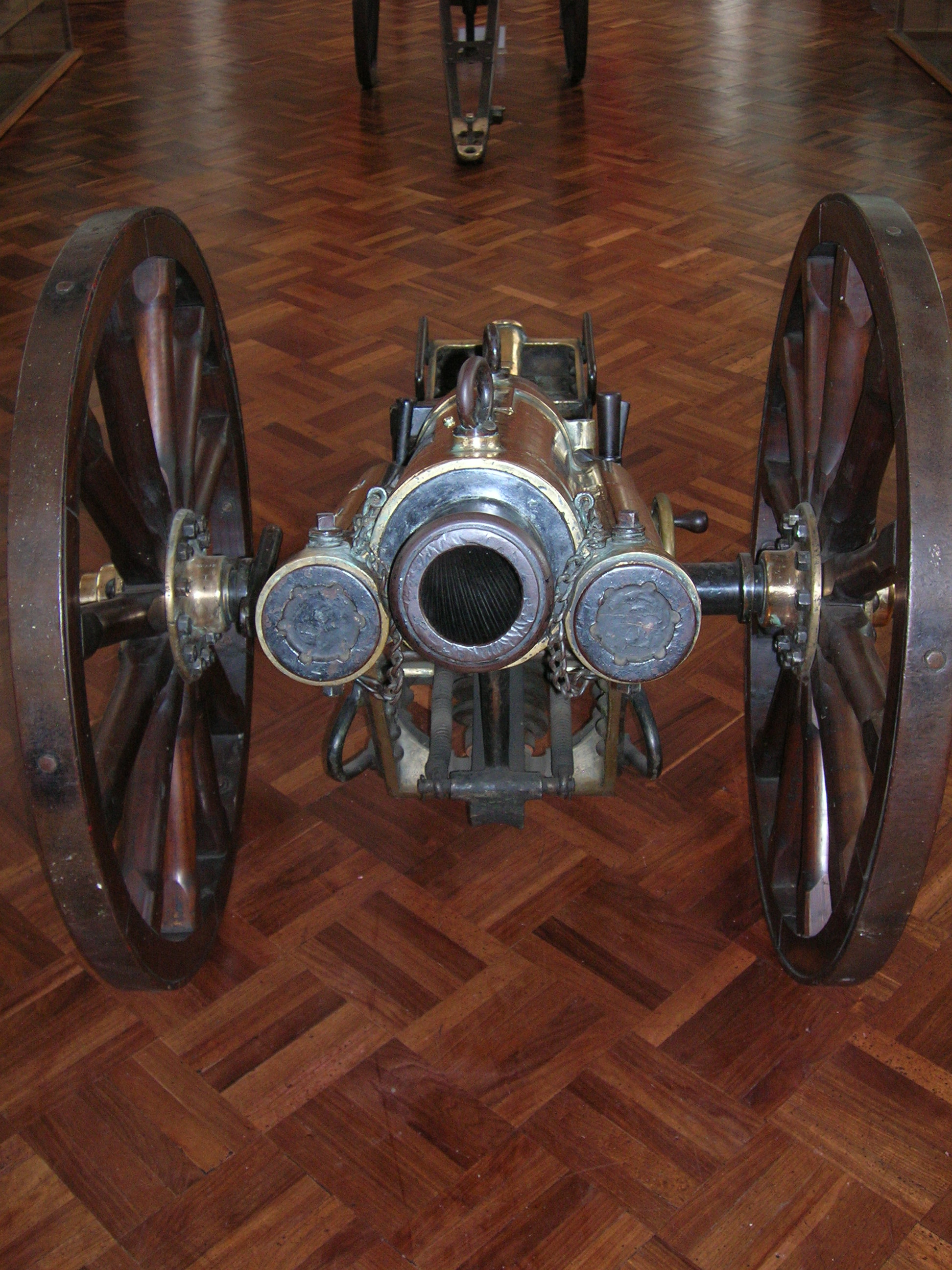 Vickers 1900 75 mm mountain gun in the collection of the Military Museum in Bogota, Colombia. This was one of the first cannon to use an hydraulic recoil-absorbing mechanism.